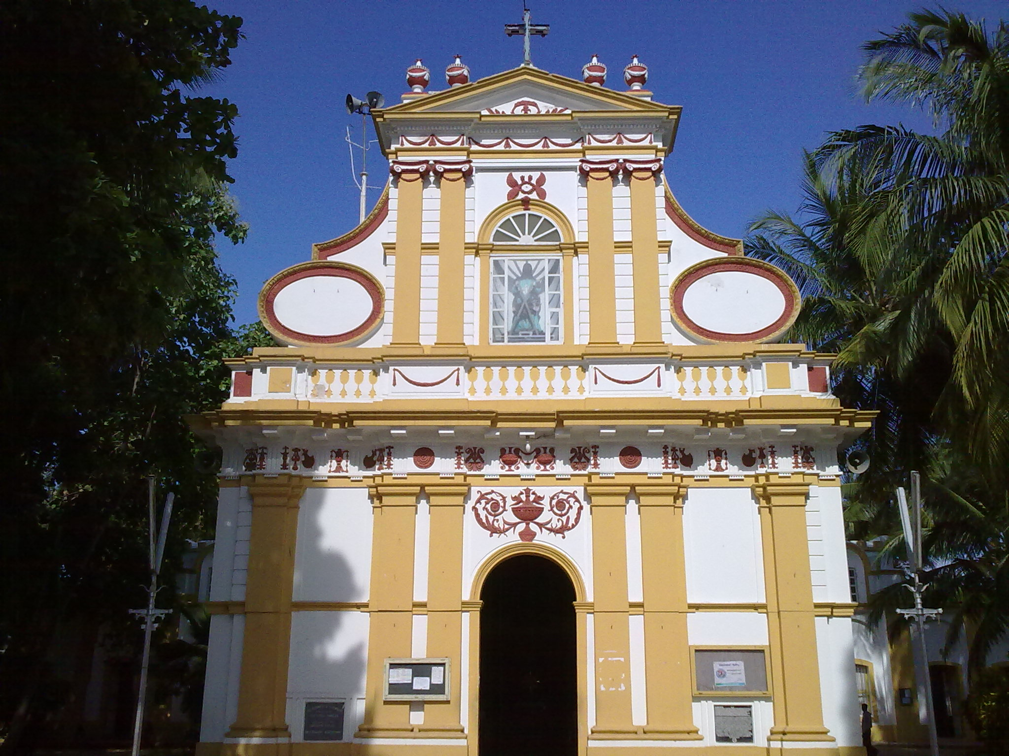 Andrews Church Reddiarpalayam Pondicherry - Front View